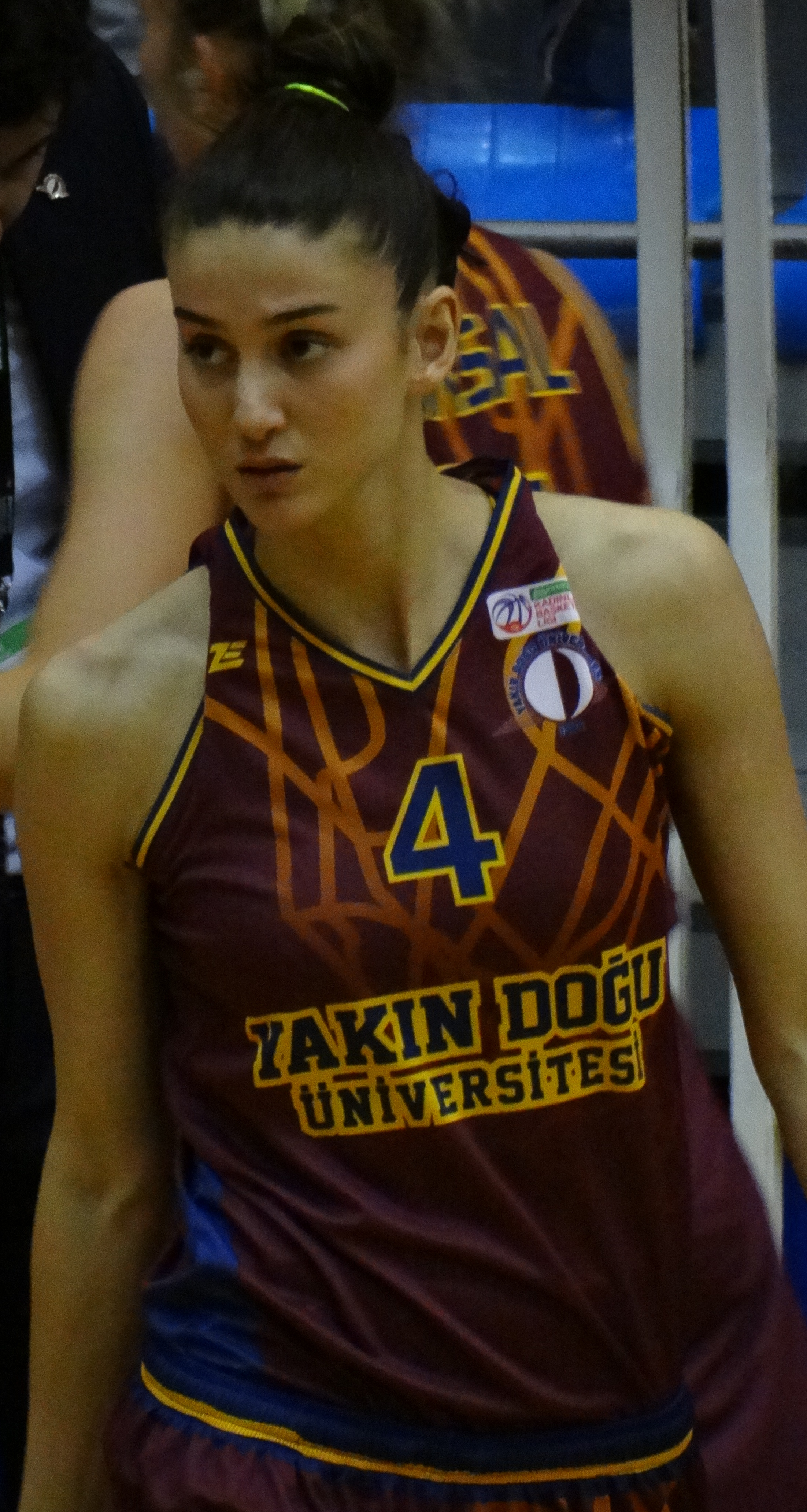 Olcay Çakır Turgut Fenerbahçe Women's Basketball vs Yakın Doğu Üniversitesi (women's basketball) TWBL 20180521